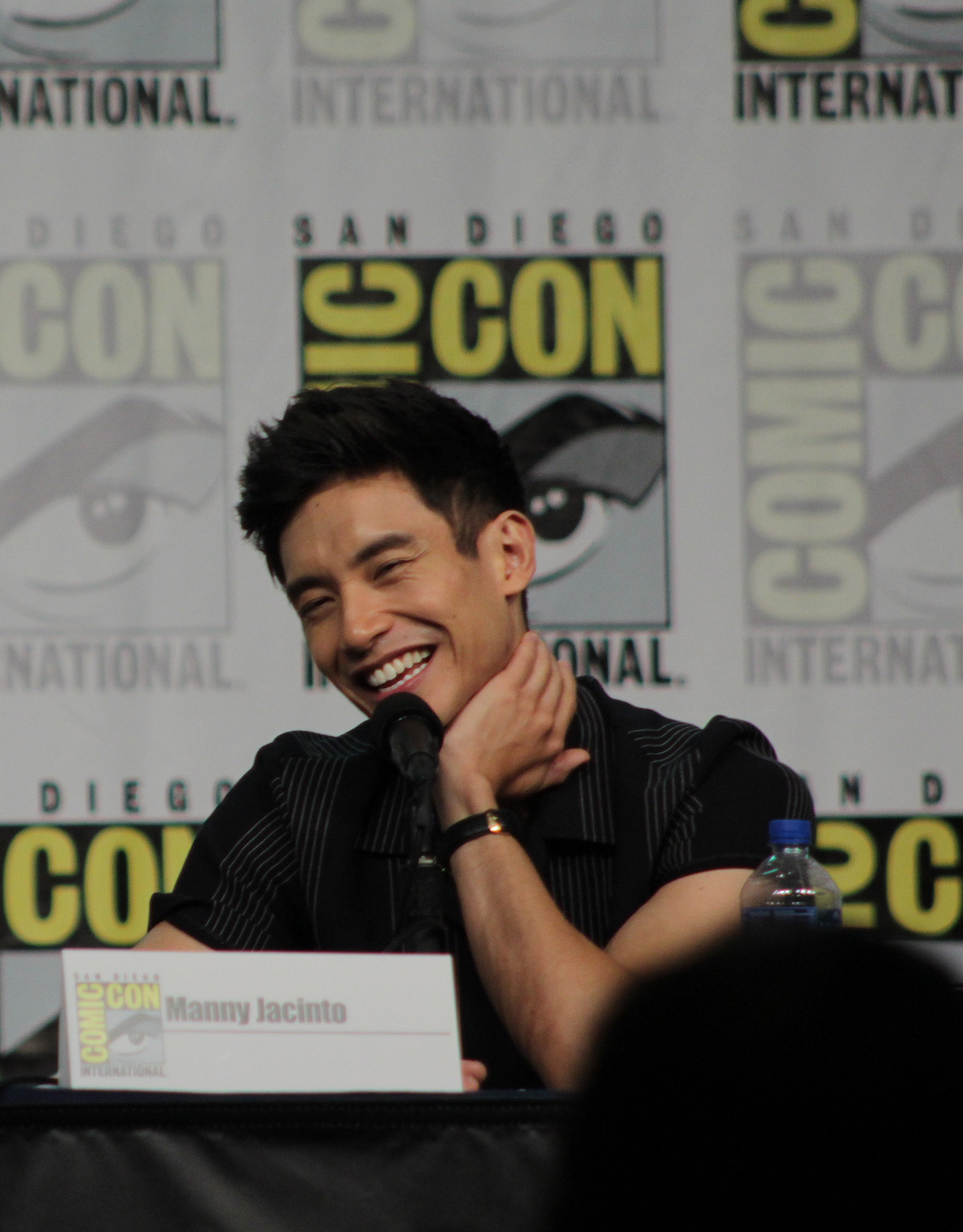 Cast and crew of NBC's 'The Good Place' discuss the show in the Indigo Ballroom at the San Diego Hilton Bayfront Hotel during San Diego Comic Con on July 20, 2019. Taken by Dominique Redfearn.